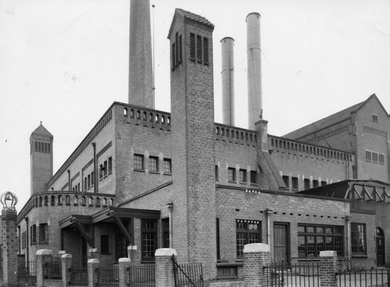 Building by architect Han Van Loghem, IJmuiden, The Netherlands, 1911-1914